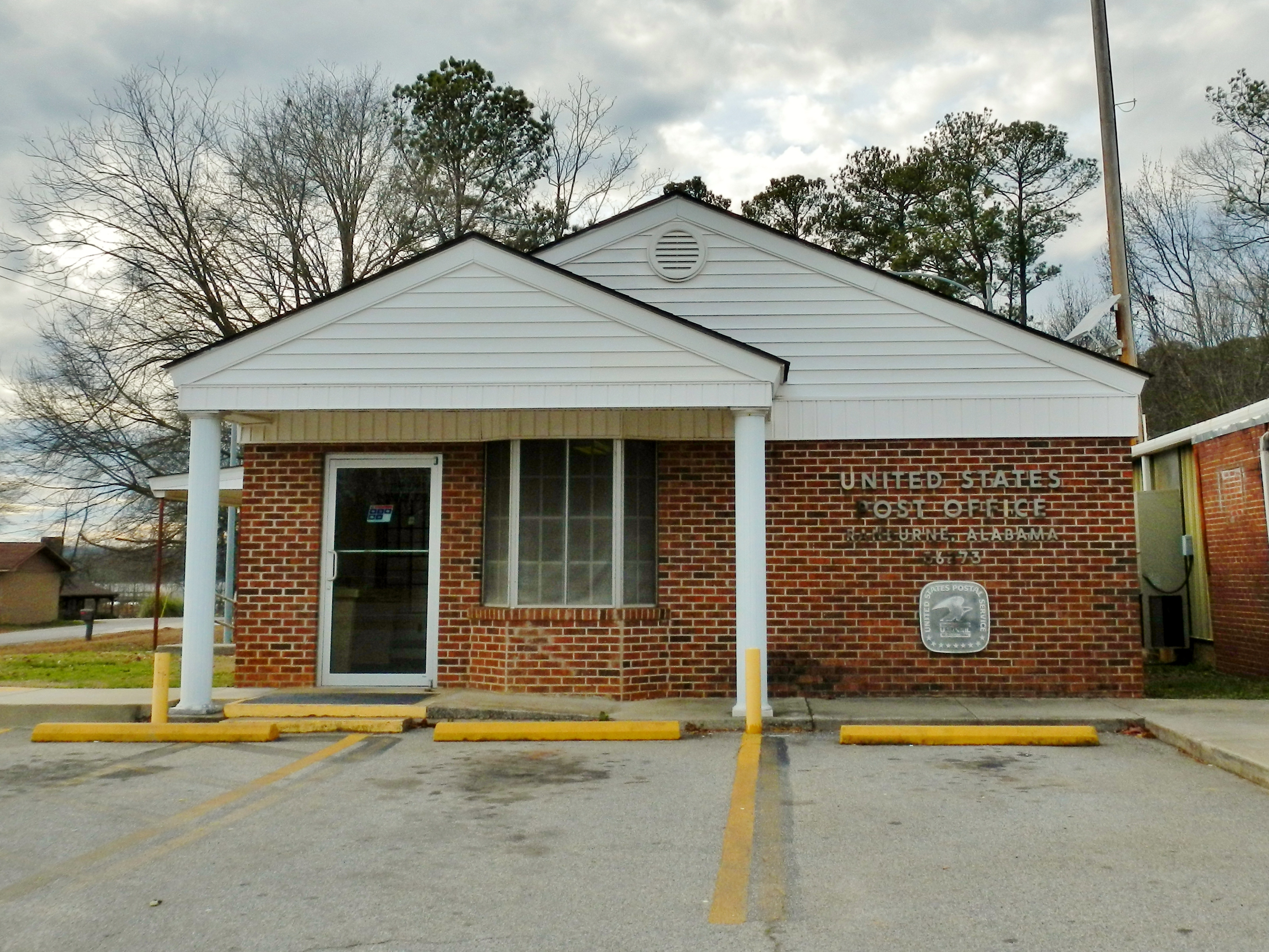 This is a photograph of the Ranburne Post Office in Ranburne, Alabama.